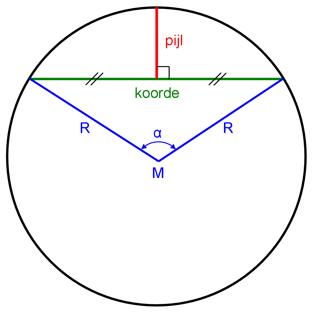 The location of a sagitta in a circle